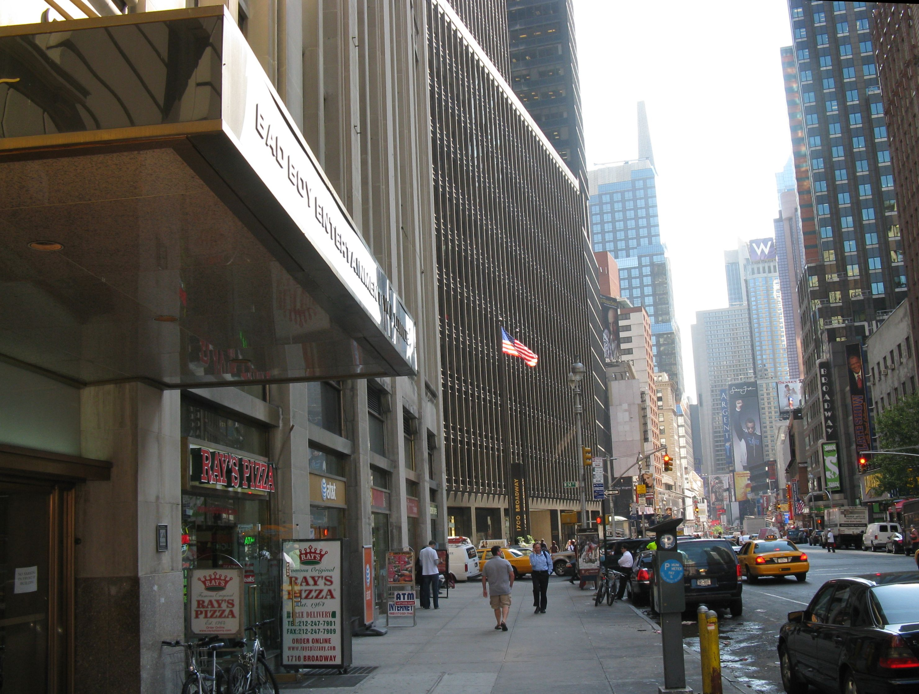 Bad Boy Entertainment Worldwide on Broadway. Sean John advertisement on billboard in Times Square towards bottom of the picture.